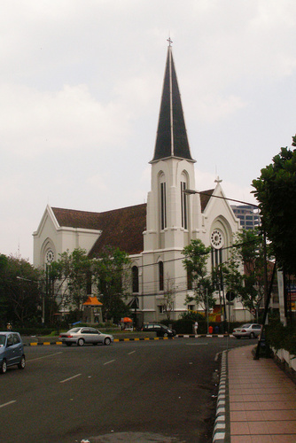 The cathedral, built in Dutch colonial era, serves as the center of catholic community in Bandung. Taken by Umar Khatab on October 6th, 2007